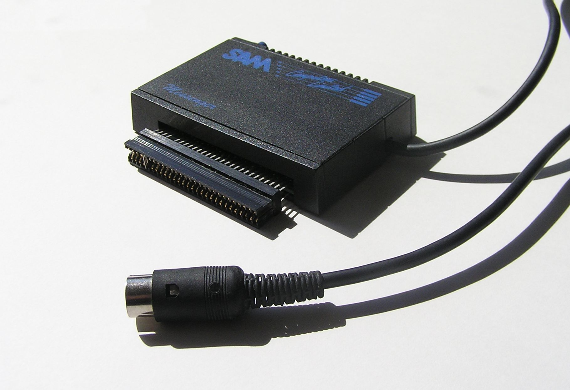 Photograph of the SAM Messenger.